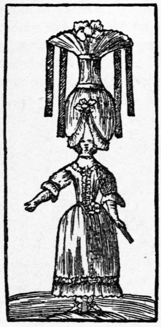 Petis with the high cap, from "Petis and Telée"